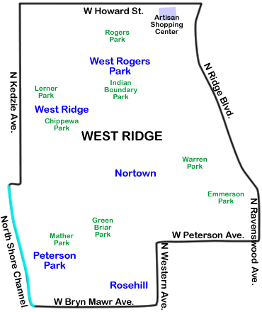 Detailed map of Chicago Community Area 02 - West Ridge Created with Macromedia Fireworks 4 PNG-8 Websnap adaptive color palette 256 colors Index transparency